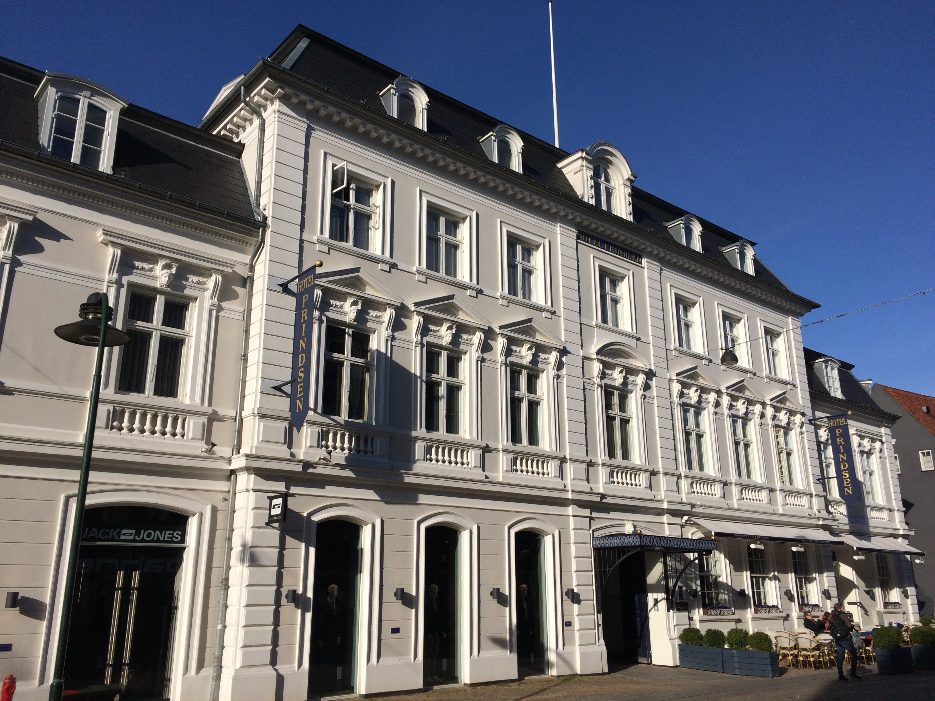 Hotel Prindsen, Roskilde, Denmark in 2016 seen from Algade